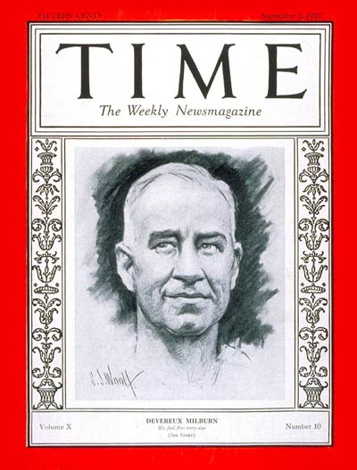 The cover shows Devereux Milburn.